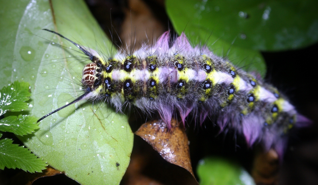 This stunning psychedelic caterpiller was taken at Lions Nature Education Centre.